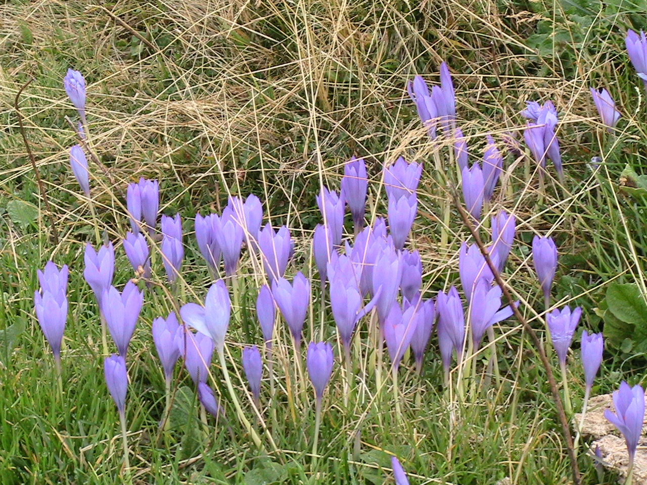 Crocus nudiflorus. In Cabdella (Pallars Jussà - Catalunya. To 2.270 m altitude